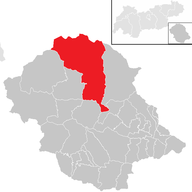 District Lienz